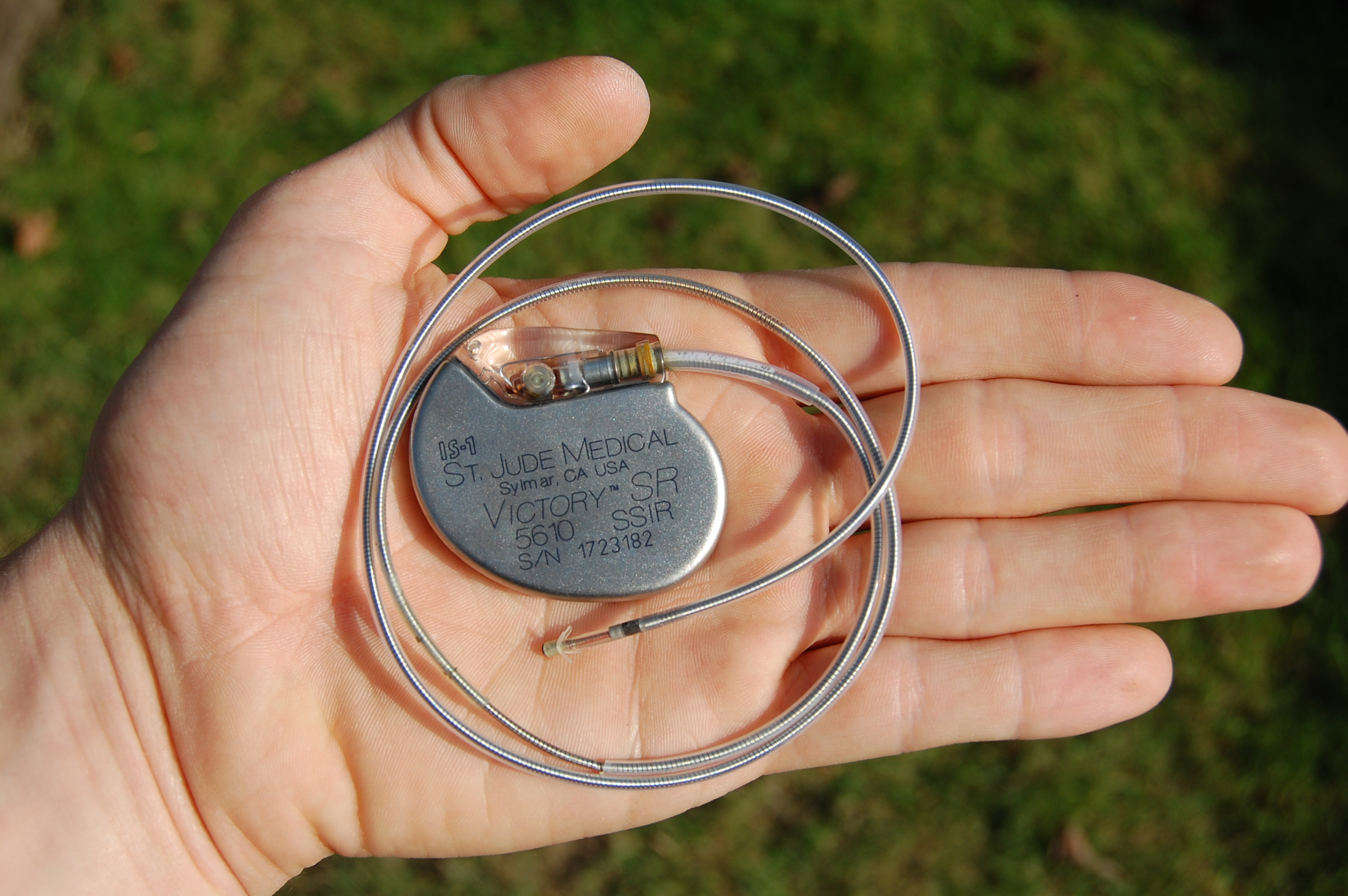 An artificial pacemaker (serial number 1723182) from St. Jude Medical, with electrode.